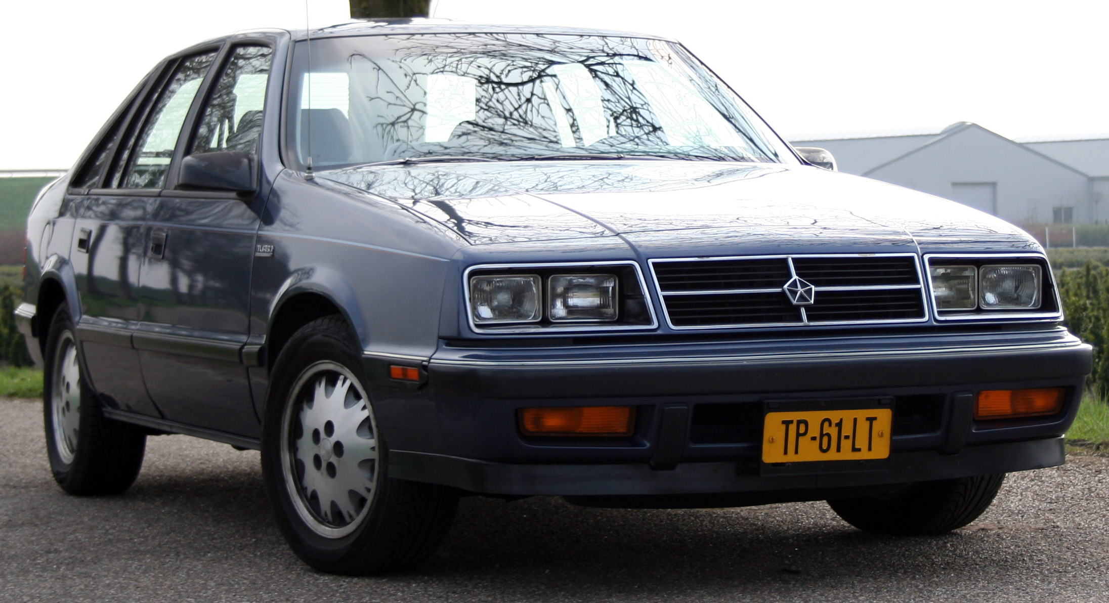 1988 Dodge Lancer ES with turbo sports package.